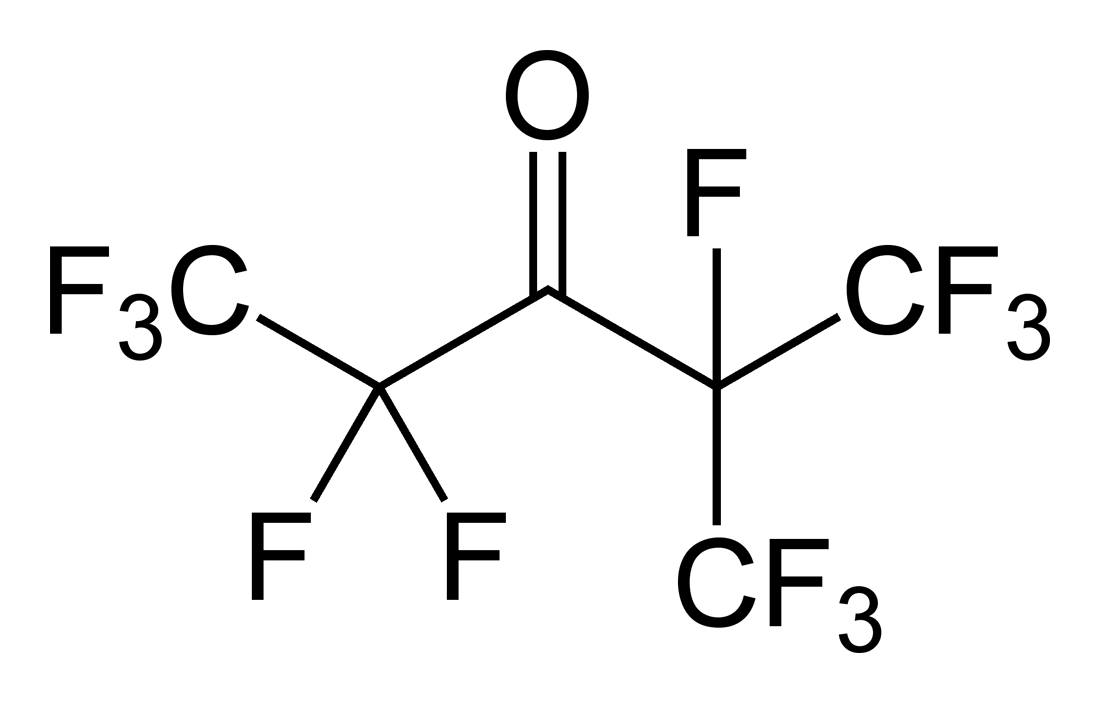 Skeletal formula of the Novec 1230 molecule, dodecafluoro-2-methylpentane-3-one, C6F12O.